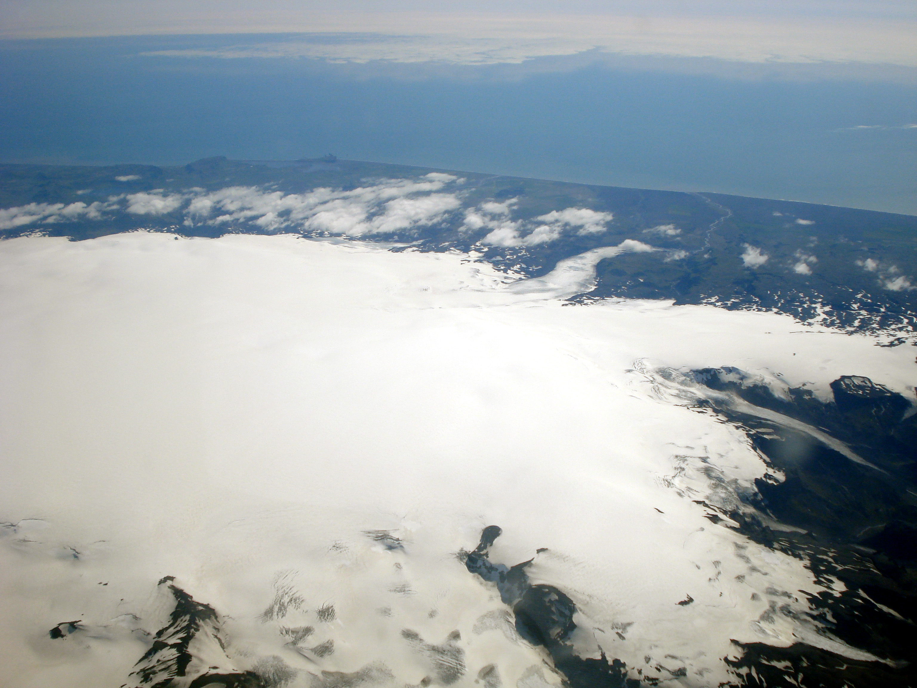 Mýrdalsjökull glacier in Iceland